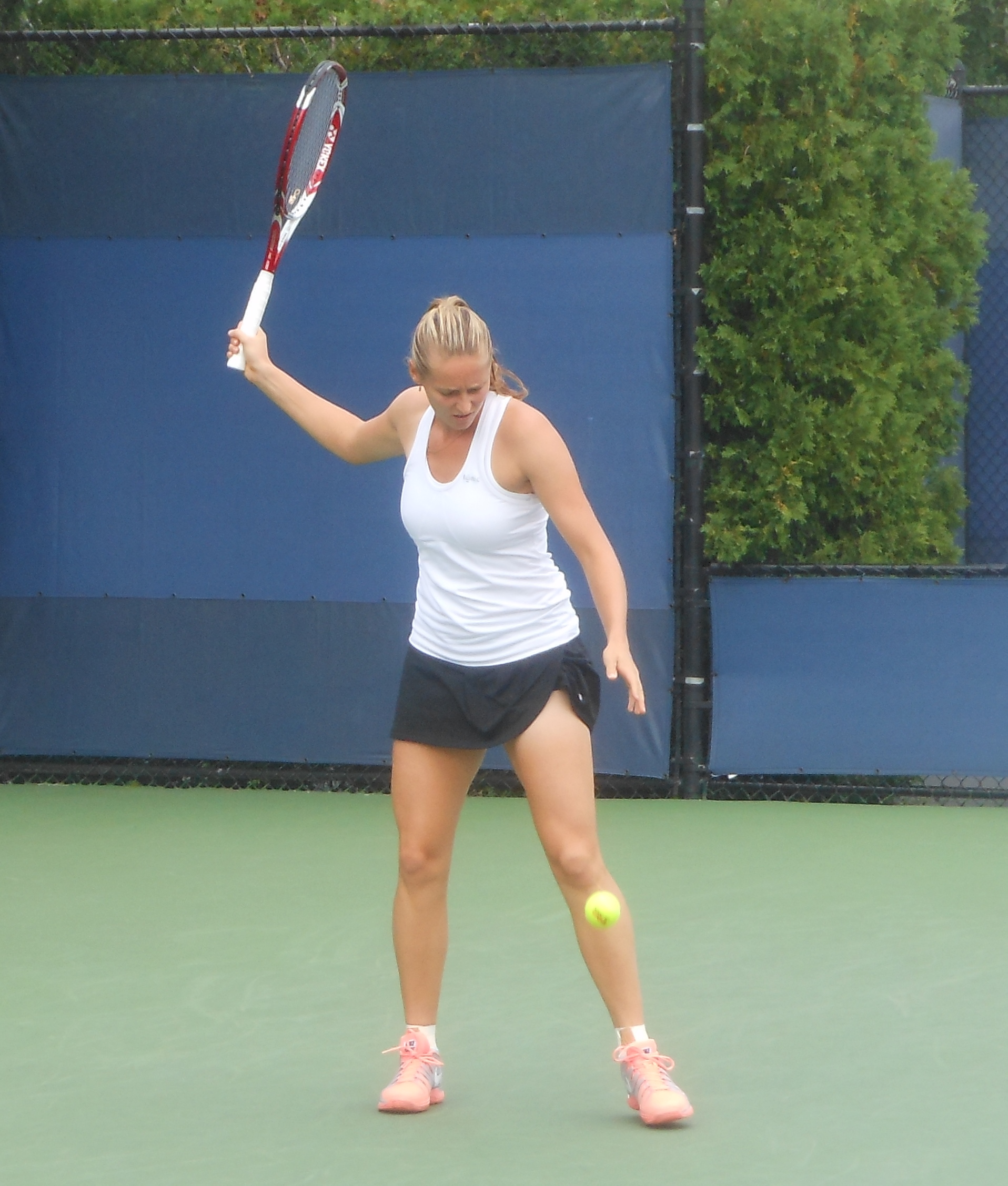 Olga Puchkova at the US Open